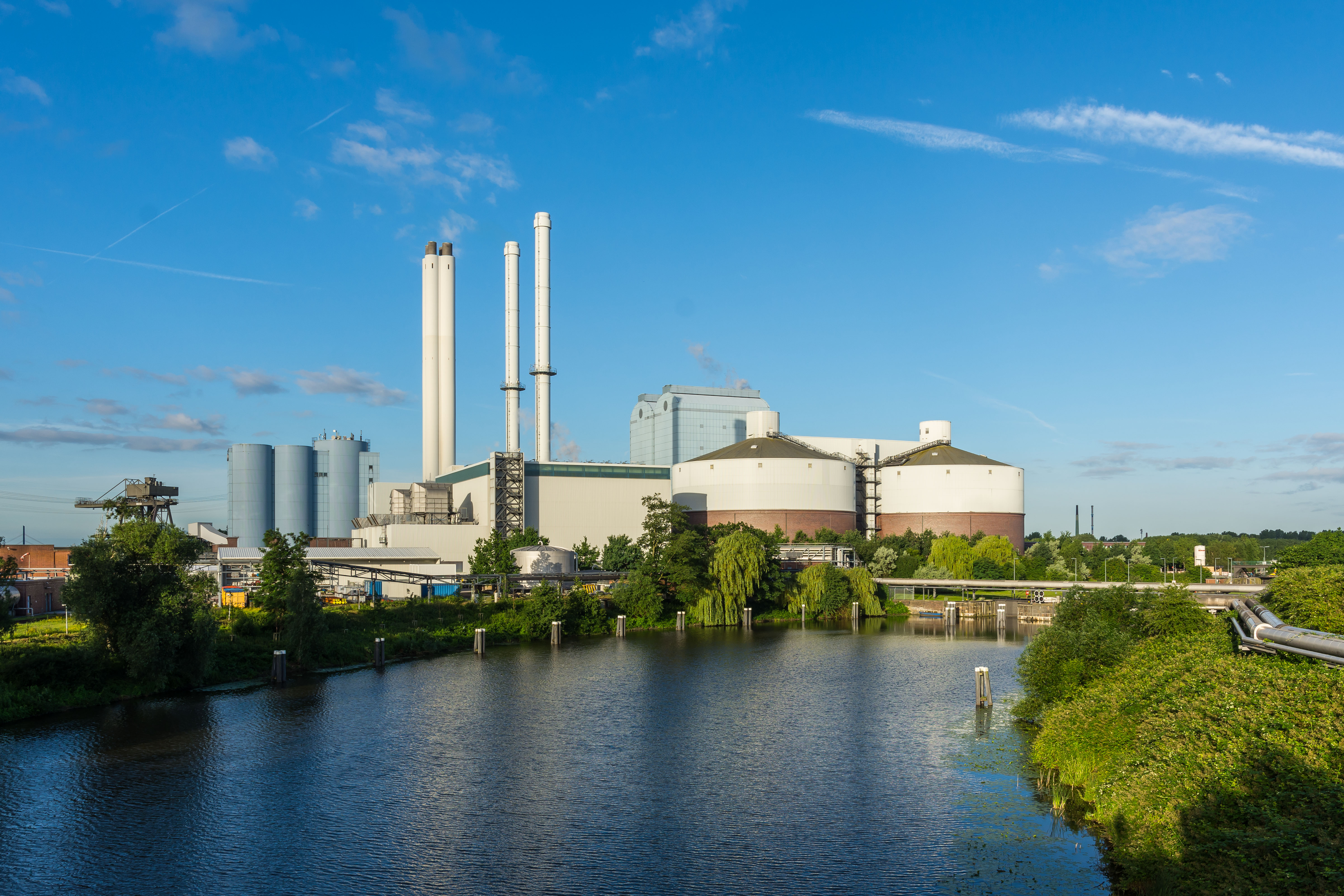 Tiefstack district heating station in Hamburg-Billbrook, view from the east; the water in the foreground is a channel called Tiefstackkanal, on the right a lock in the channel is visible.